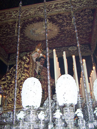 Virgen del Mayor Dolor y Traspaso. Semana Santa en Sevilla. Año 2005 Foto realizada y propiedad de Ángel Chacón